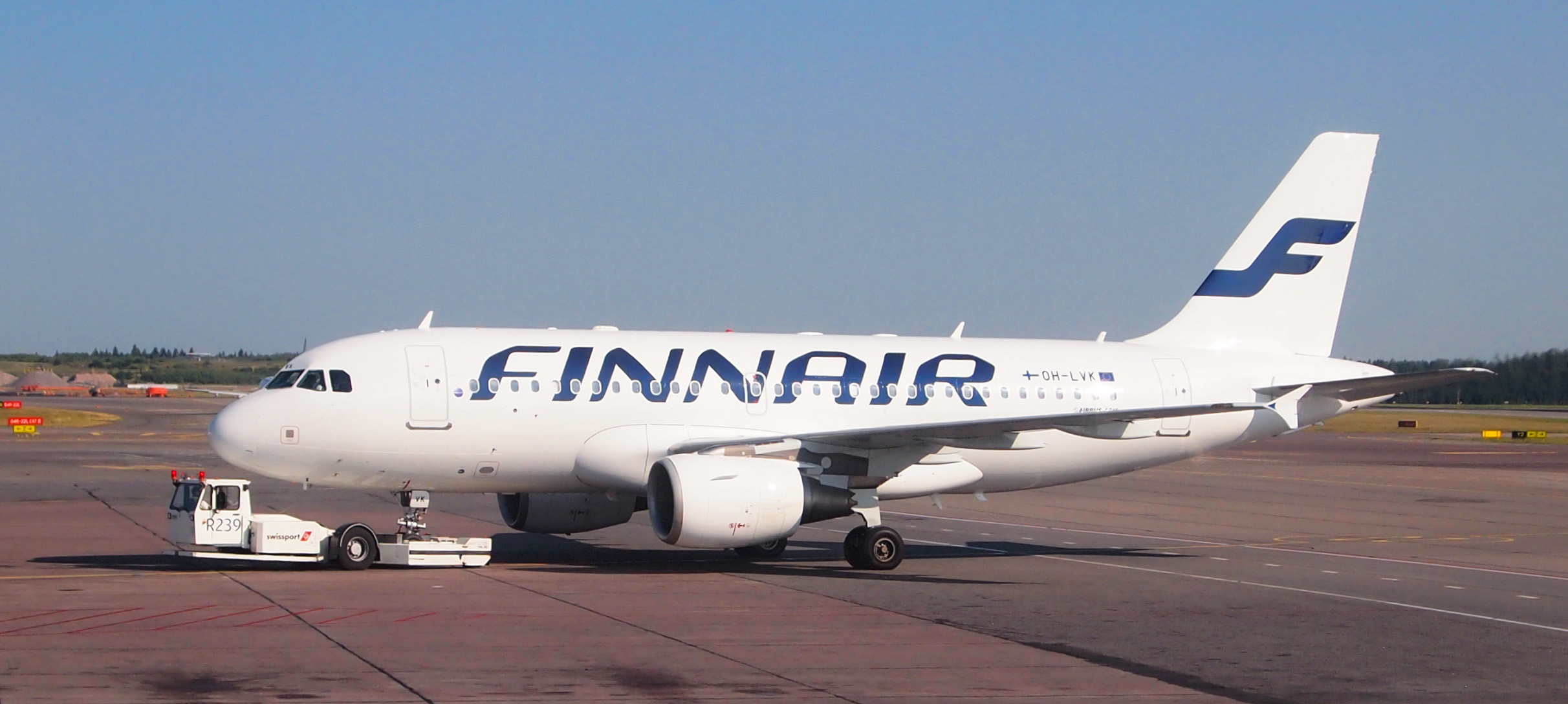 Airbus A319-112 of Finnair aircraft OH-LVK. This photograph was taken with an Olympus E-PL1